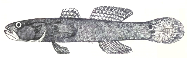 Chinese black sleeper, Bostrychus sinensis Lacepède 1801